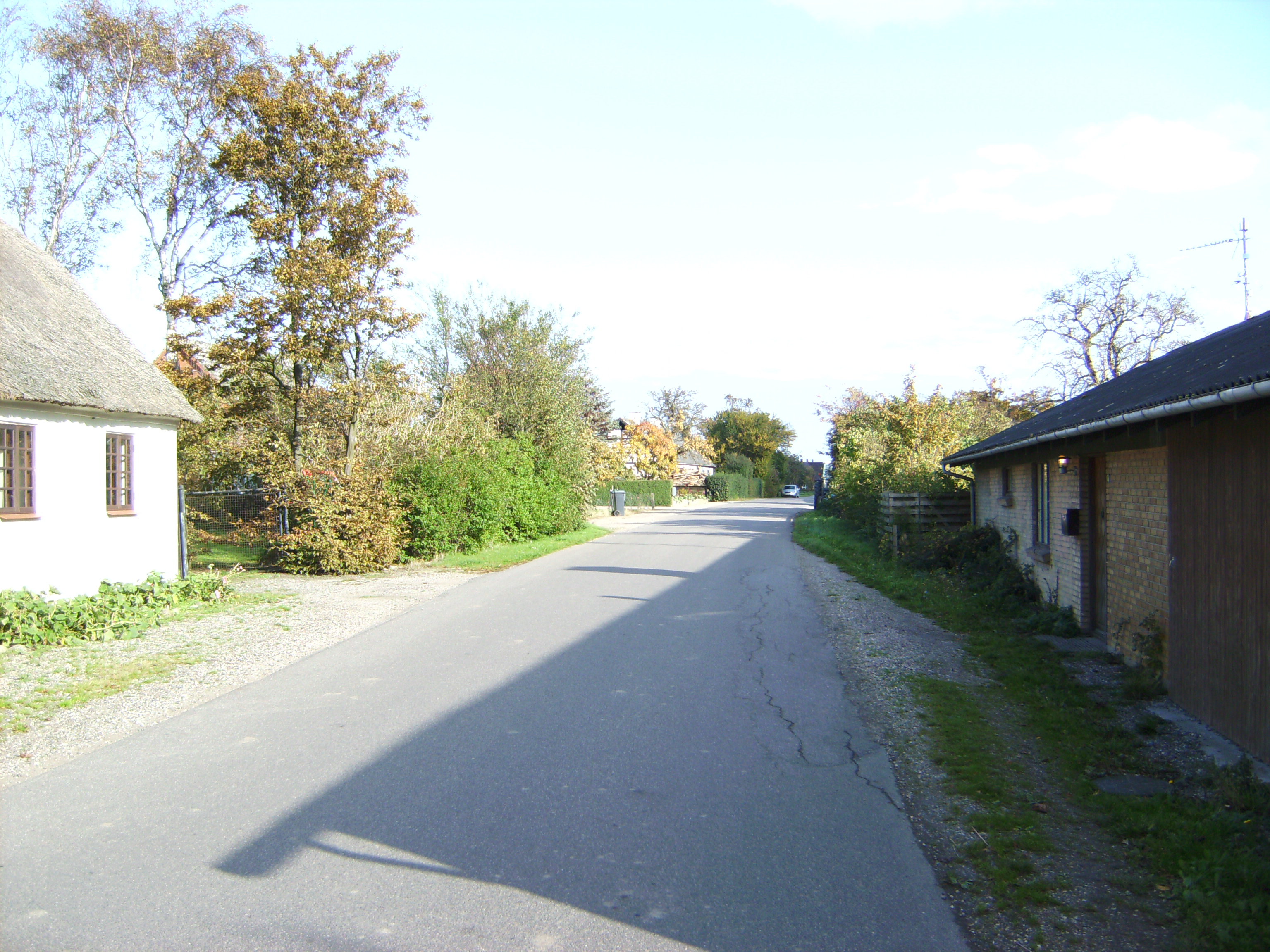 View down the road